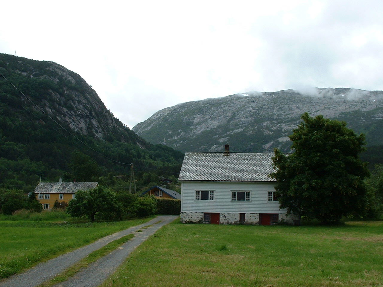 Torsnes farm, Jondal, Hordaland, Norway